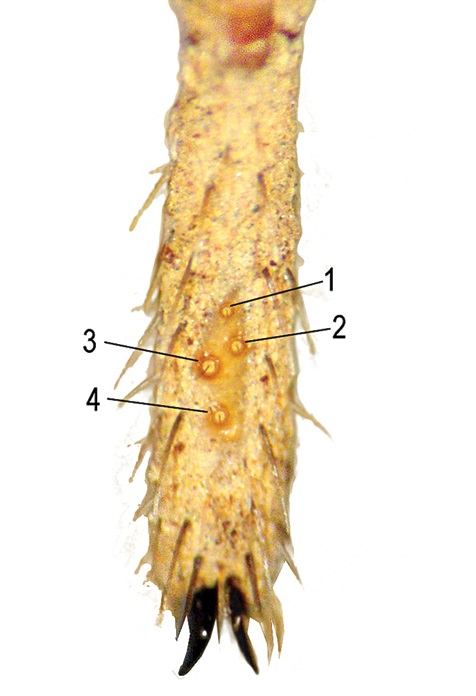 Paratropis tuxtlensis. Trichobothria pattern on tarsus II, male leg.